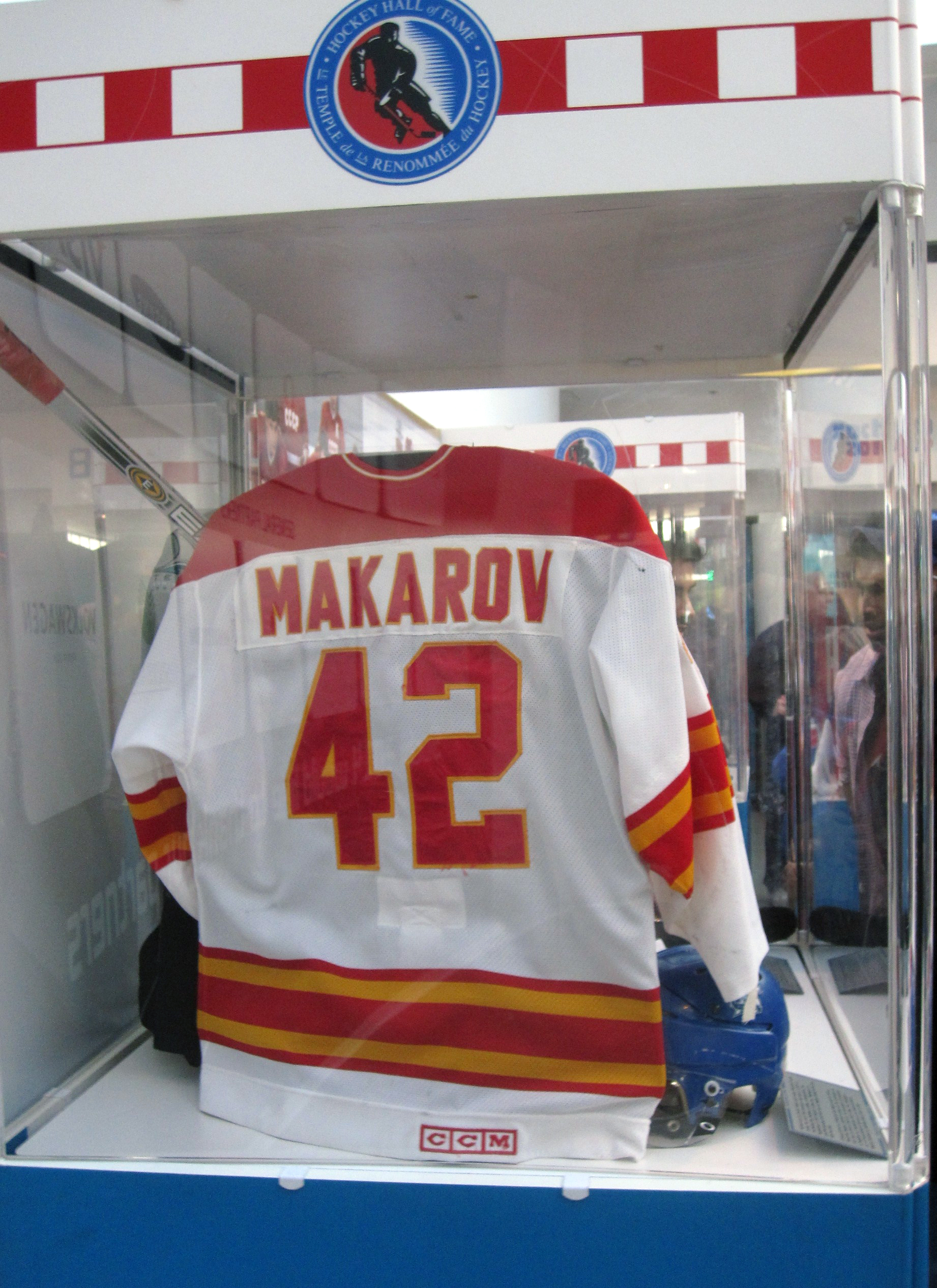 The jersey worn by Sergei Makarov on his first NHL game with the Calgary Flames.